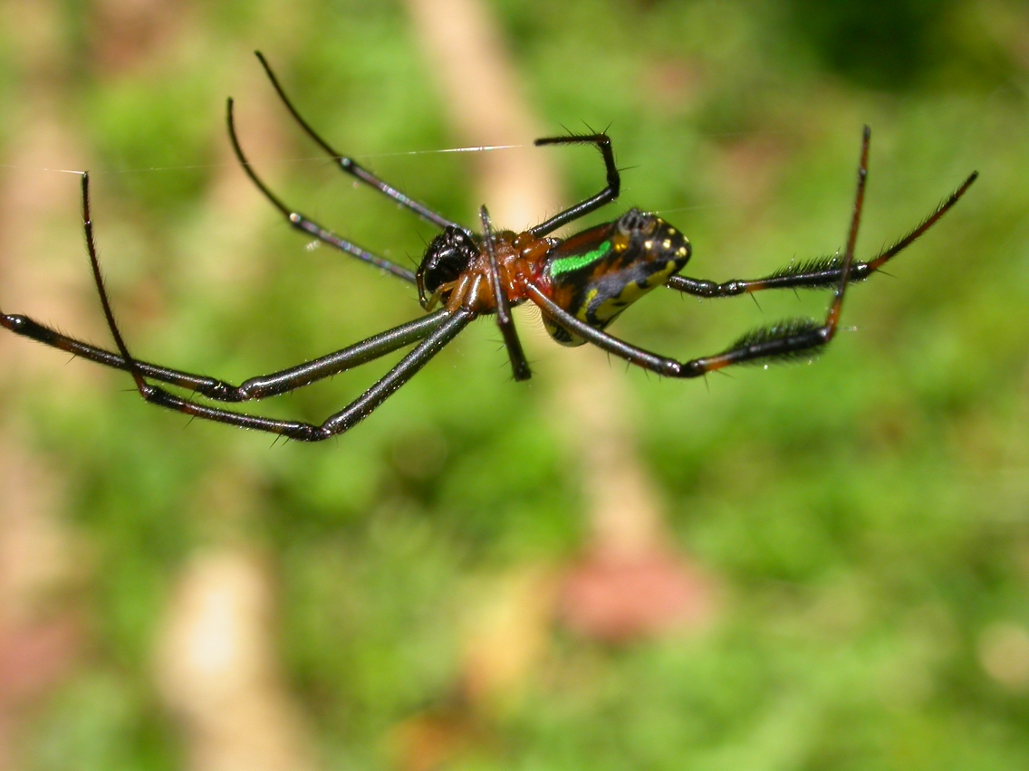 Spider Leucauge tessellata (?) (Thorell, 1887) (Tetragnathidae) from Wayanad, southern India. Identification courtesy Manju Siliwal manjusiliwal at gmail (dot) com